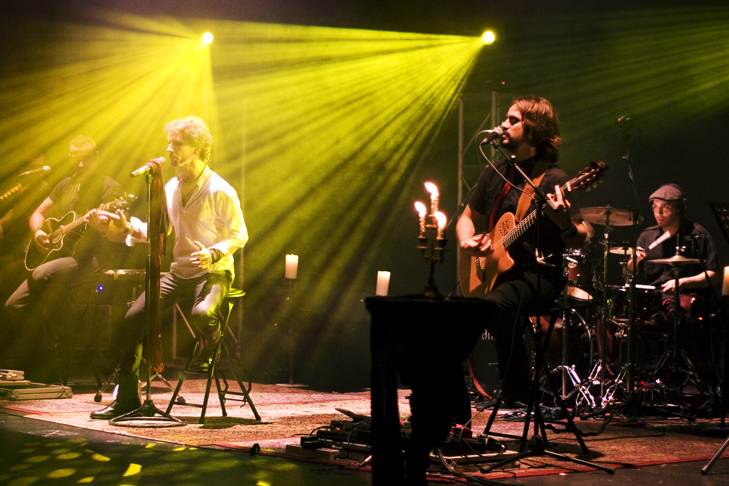 Alhándal in concert 15th December 2012 at Teatro Las Lagunas